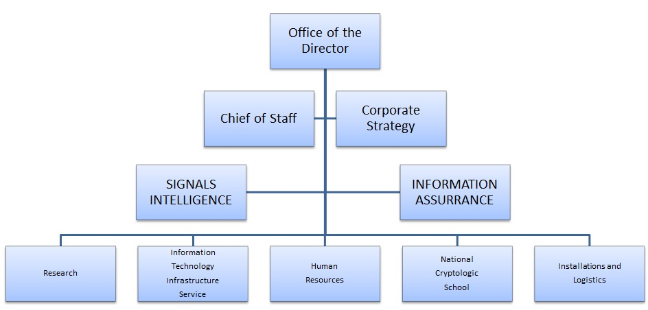 NSA chart as of 2001